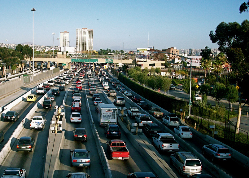 Looking towards Tijuana from South San Diego; New City Residential Pictured